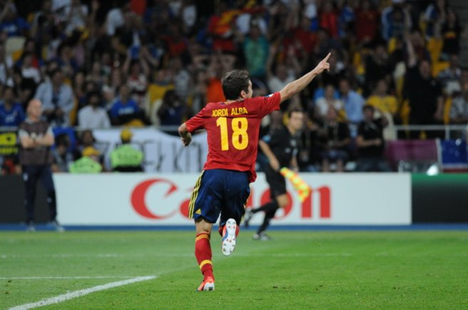 Jordi Alba goal celebration at Euro 2012 final Spain-Italy